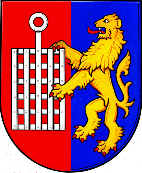 Municipal coat of arms of Žeranovice village, Kroměříž District, Czech Republic.